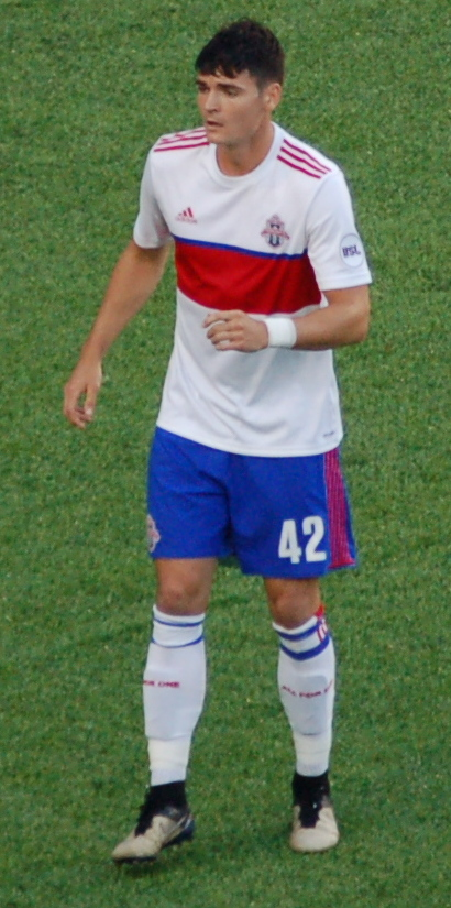 Mitchell Taintor (TFC), Eric Stevenson (FCC) Taken during a match between FC Cincinnati and Toronto FC II at Nippert Stadium in Cincinnati on June 18, 2016.